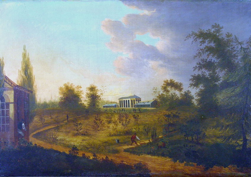 Painting of the Elgin Botanic Garden (ca. 1810; artist unknown)